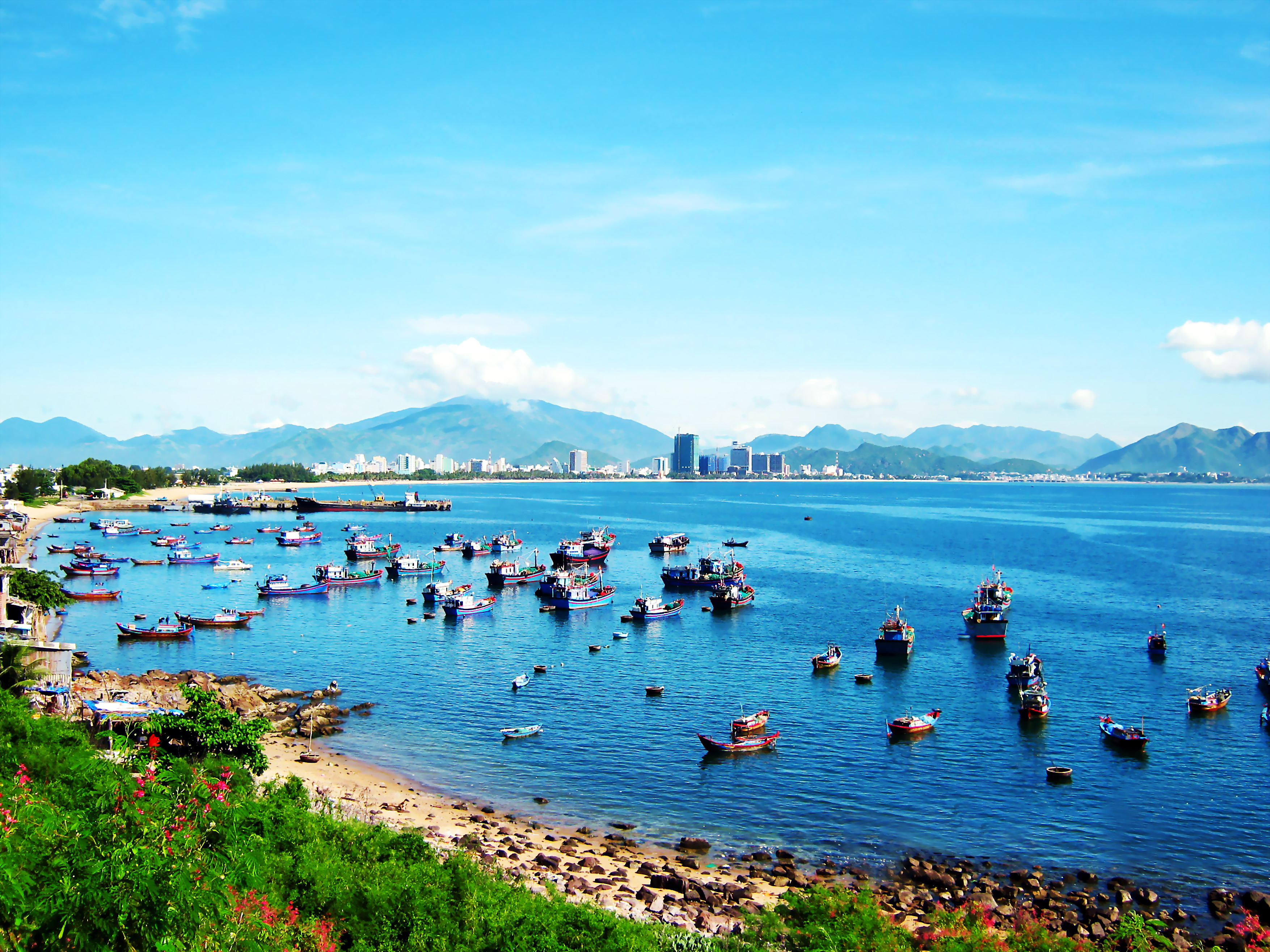 A coast in Nha Trang city, in the province of Khanh Hoa, Vietnam.